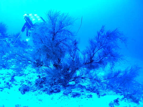 Black coral at 210 feet in the Au'au Channel, Maui Hawaii